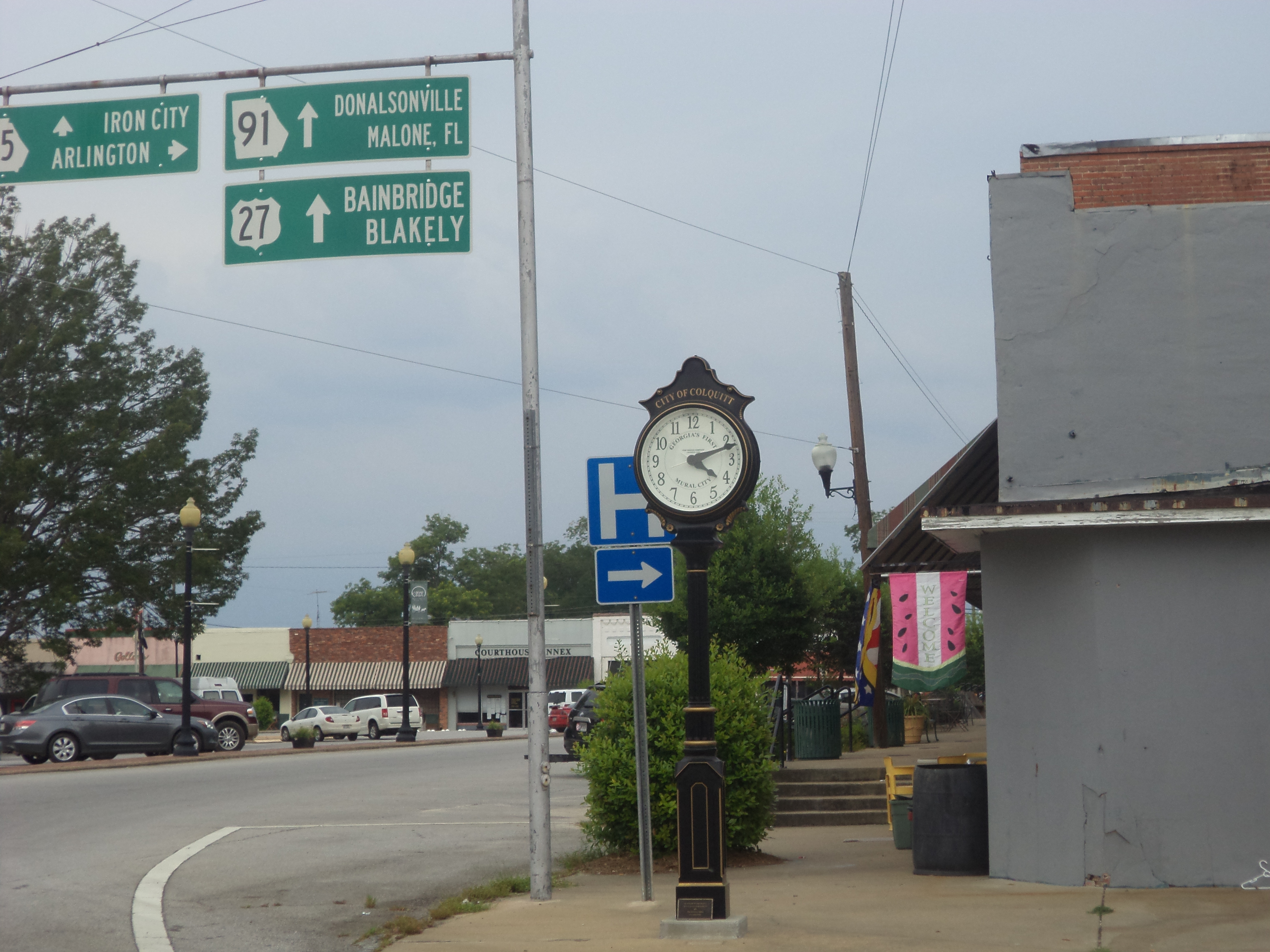 Street Clock, Colquitt, Miller County, Georgia